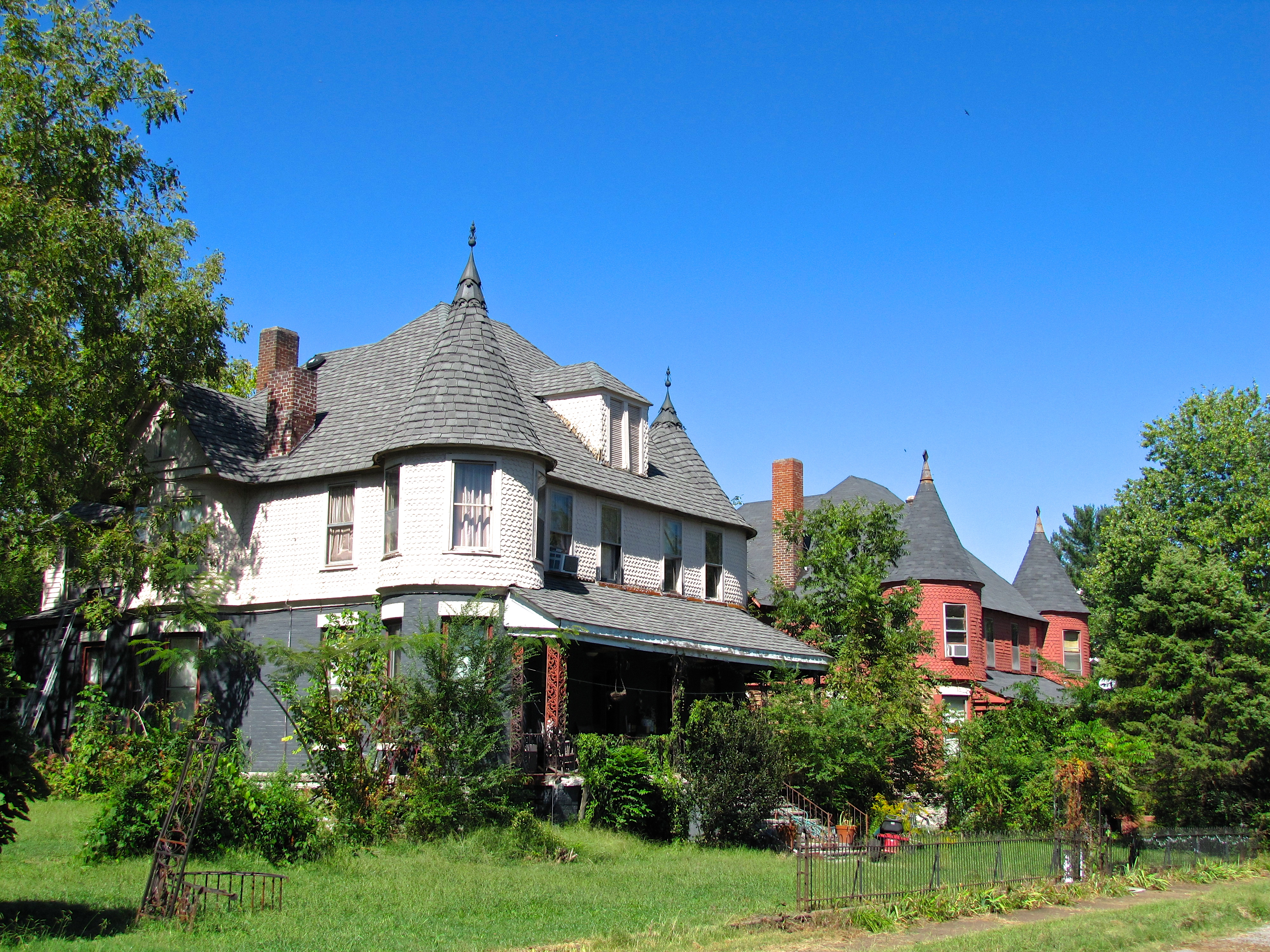 Houses along Kilpatrick Row in Bridgeport, Alabama, United States.